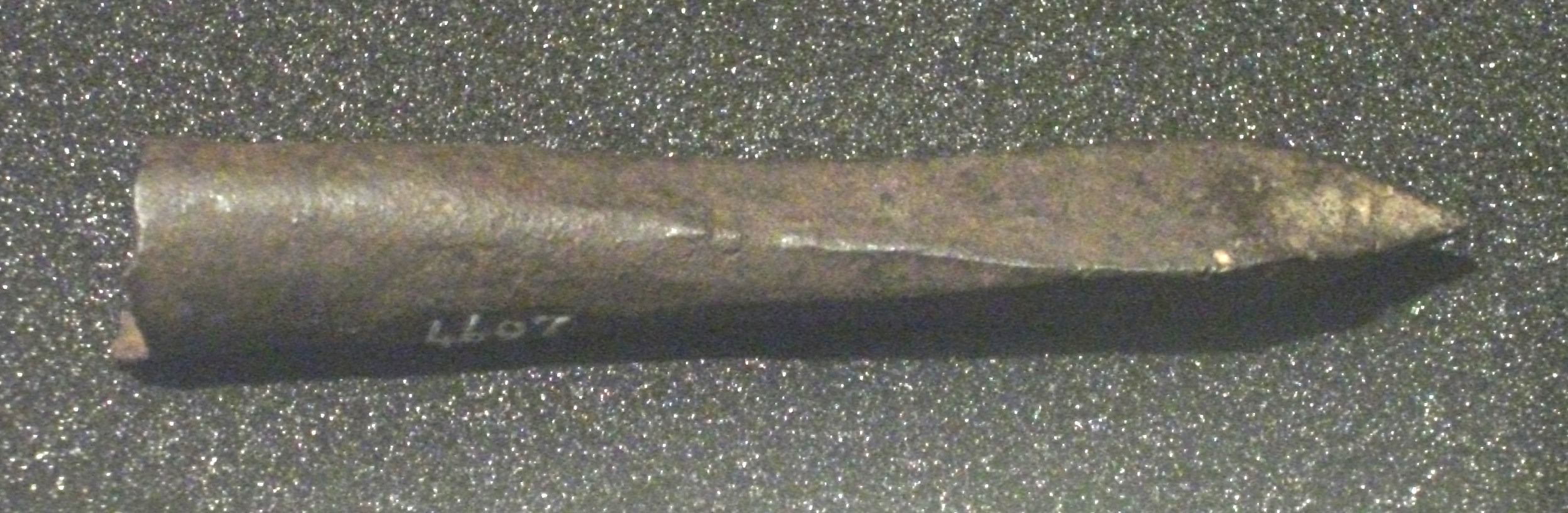 14th century iron crossbow bolt, found in Bedfordshire, on display in Bedford Museum.